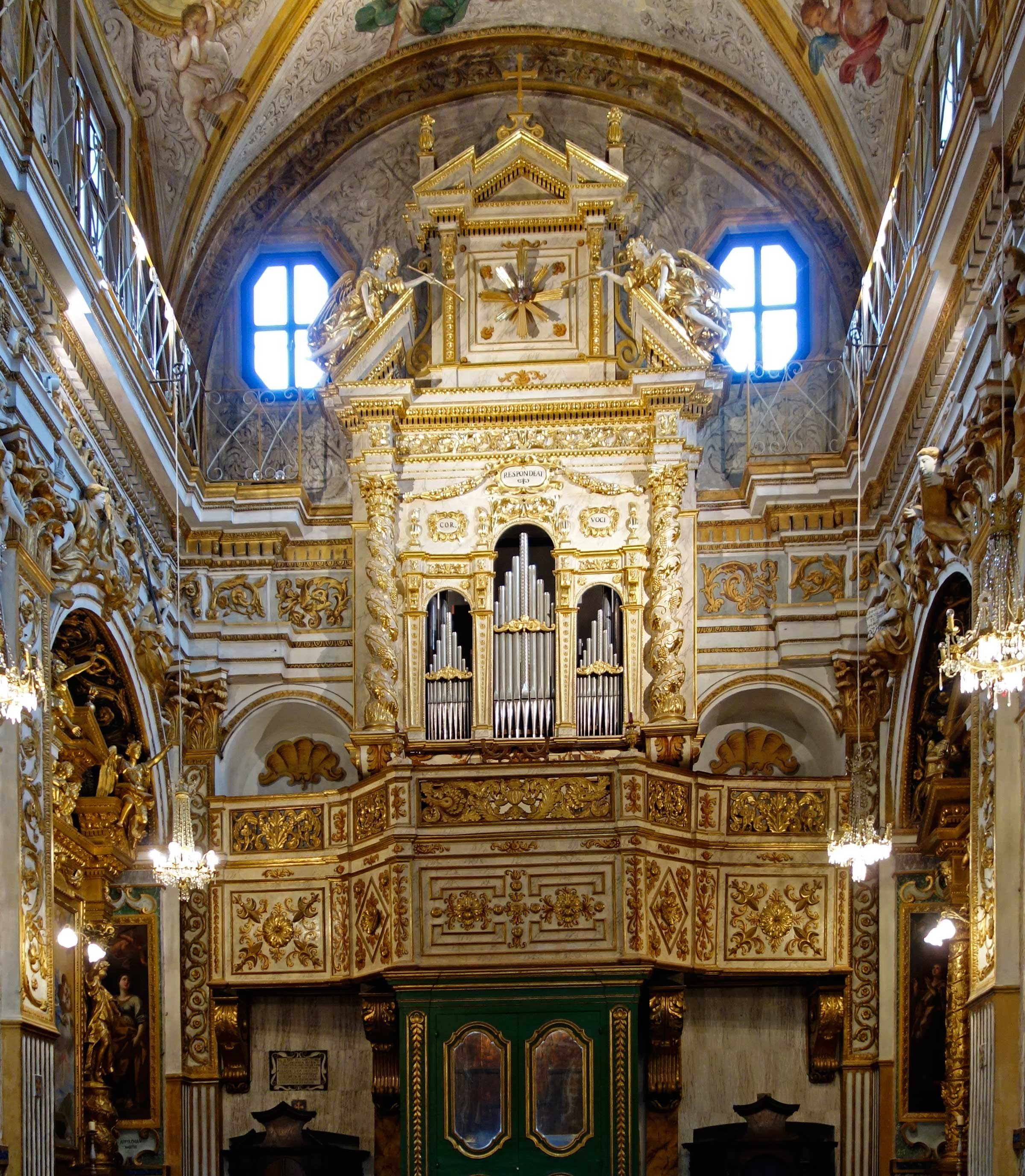 The organ inside the Santa Lucia church in Serra San Quirico (IT)